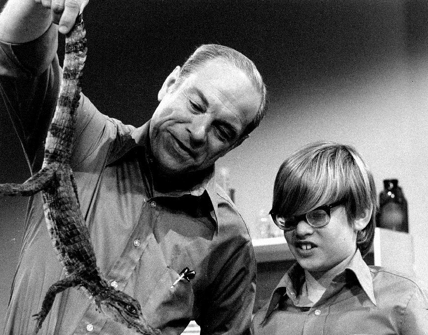 Don Herbert exhibiting an example of "Living Animal Fossils" on Mr. Wizard in 1971